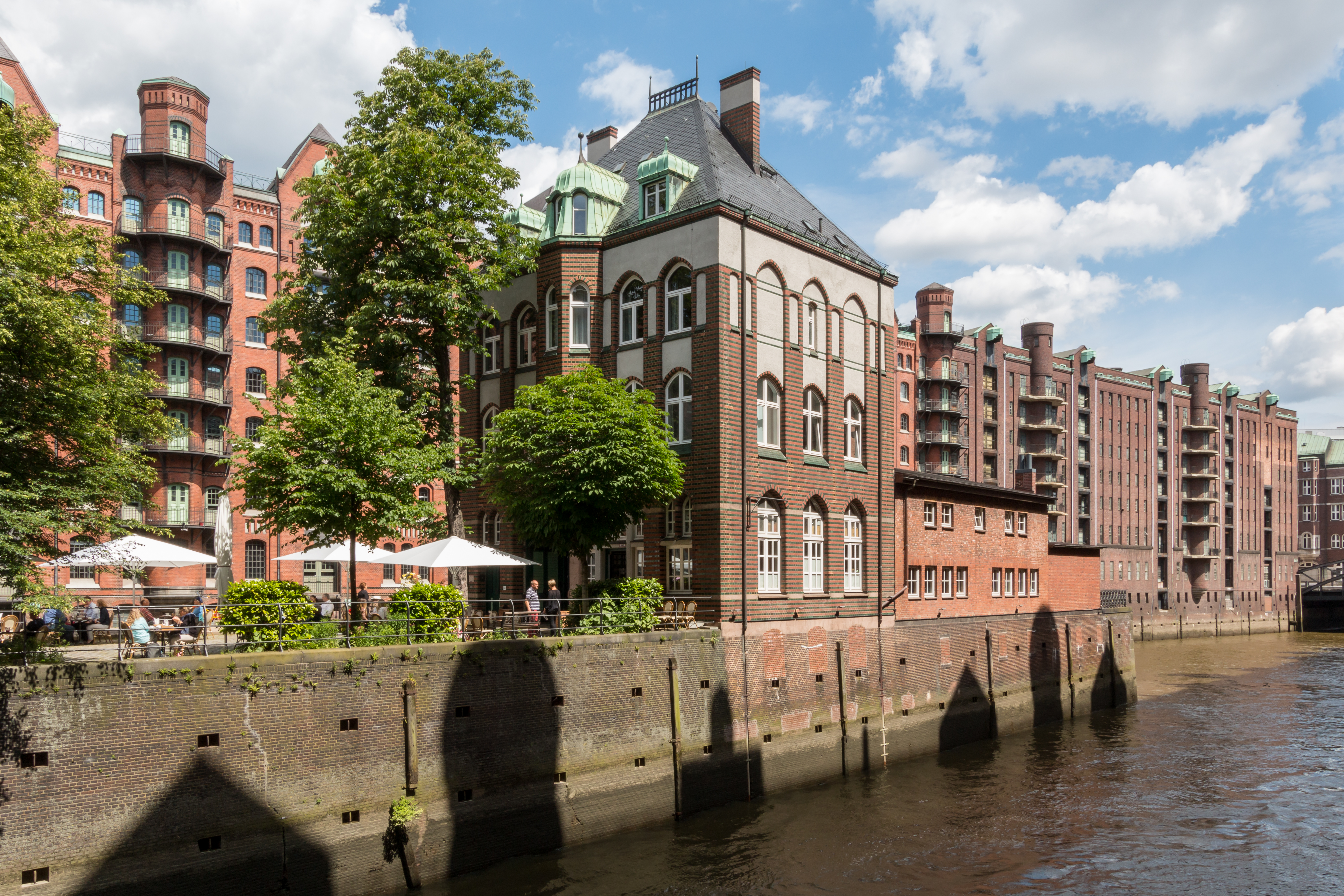 Wasserschloss am Holländischbrookfleet in the Speicherstadt, Hamburg, Germany This is a photograph of an architectural monument.